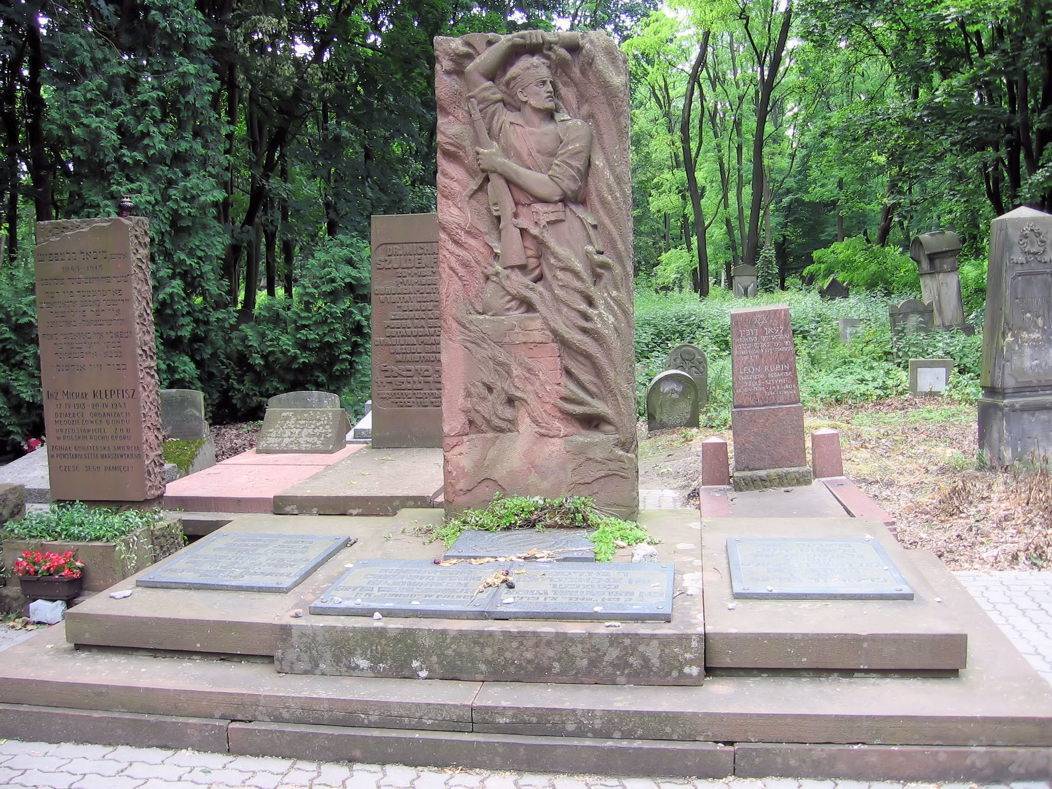 The monument "In memory of casualty Jews from Warsaw Ghetto" at Powązki Jewish Cemetery in Warsaw, Poland